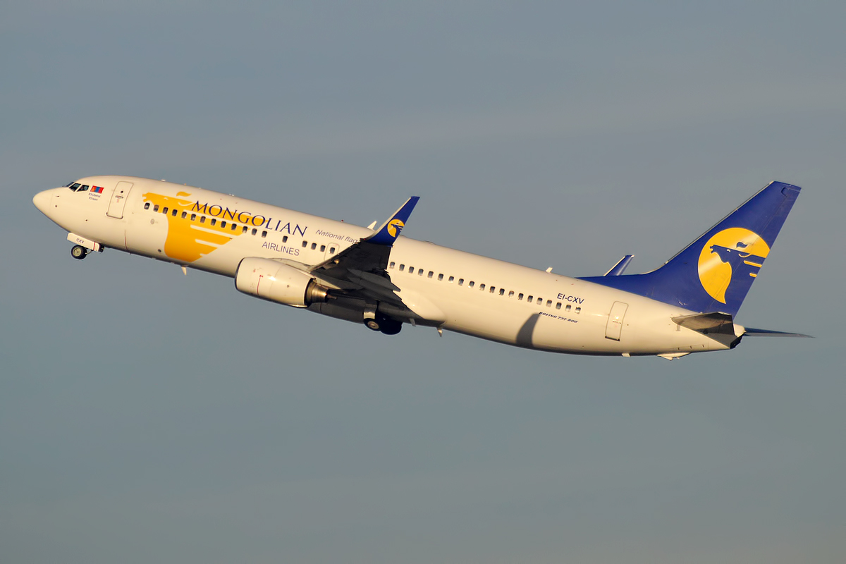 MIAT Mongolian Airlines, EI-CXV, Boeing 737-8CX